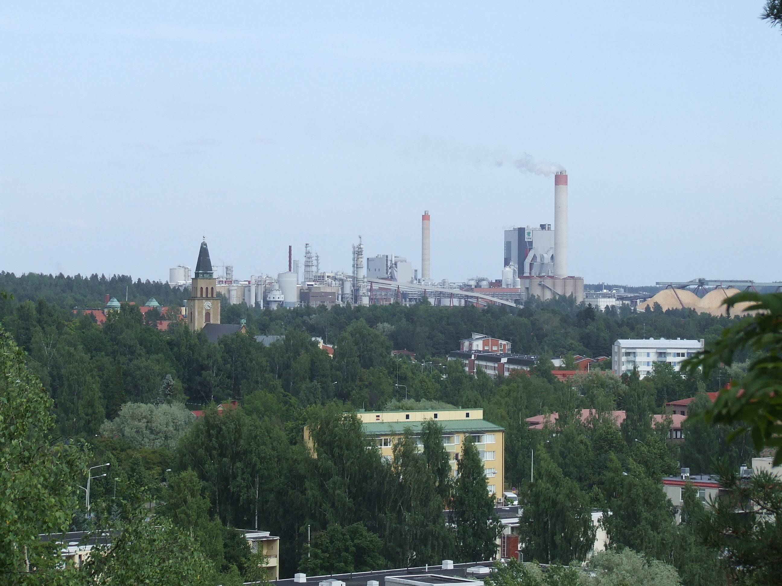 A view over the centre of Kuusankoski in Kouvola, Finland.